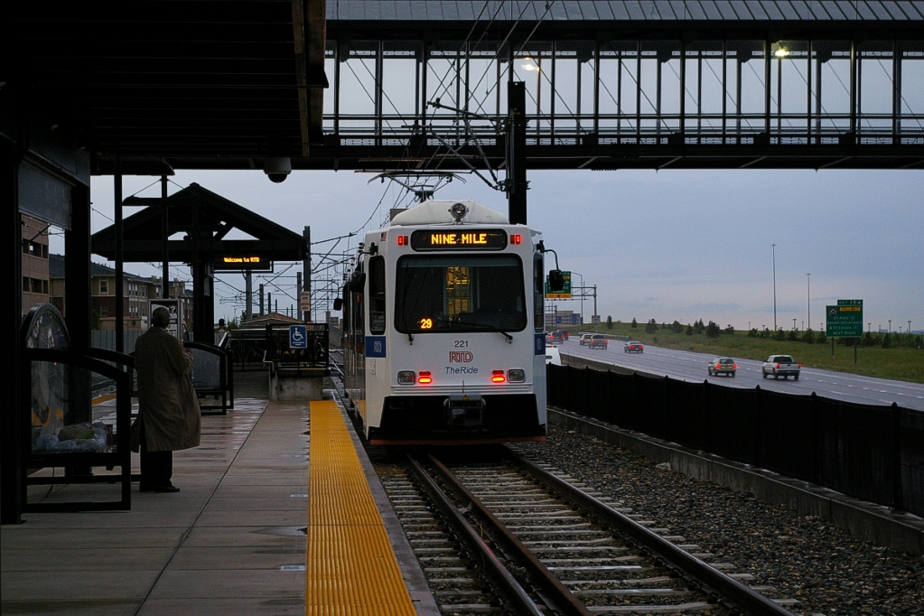 A northbound G Line train awaits its departure time at Lincoln Station